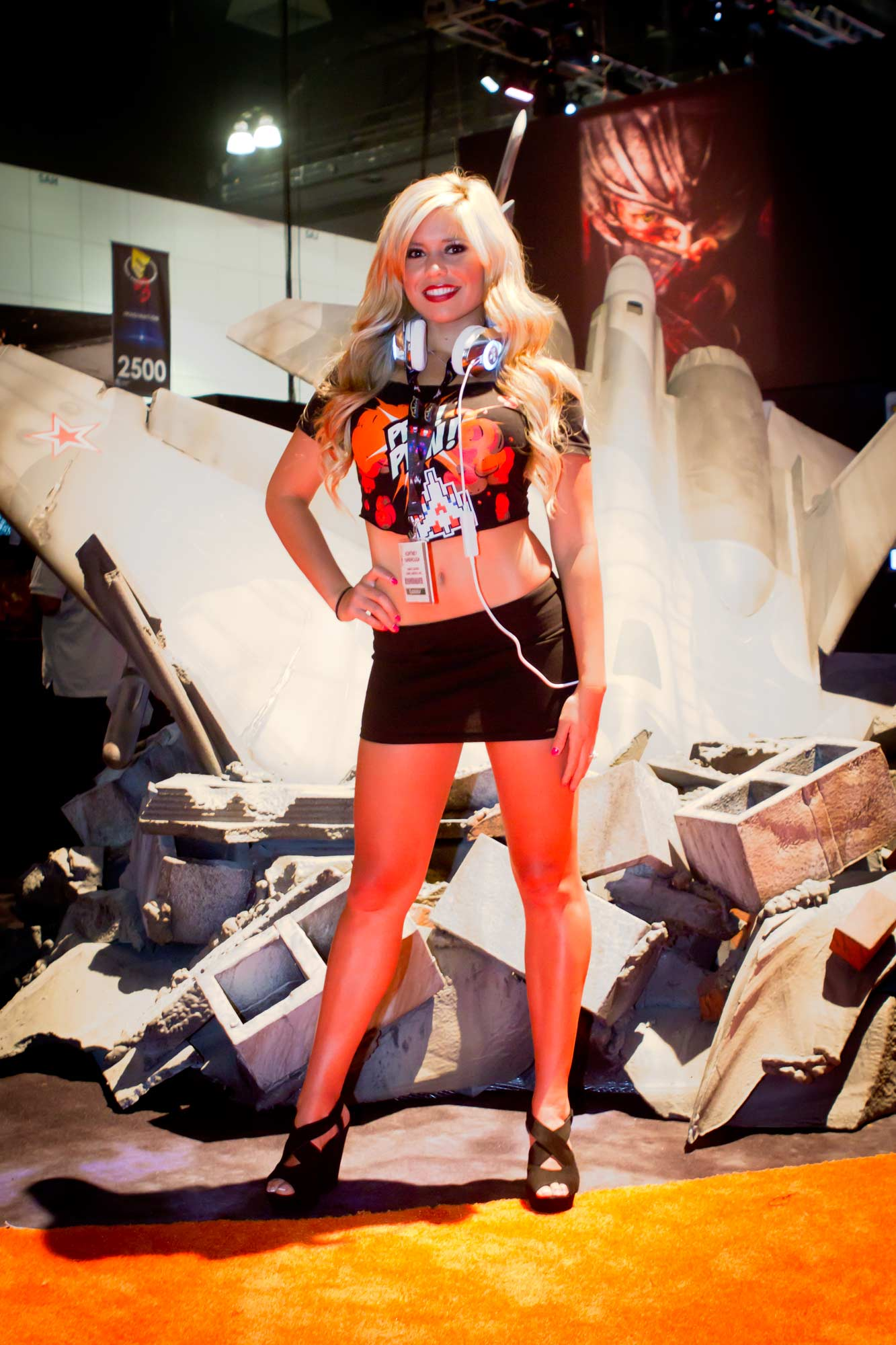 Canon 7D - EF 24-70mm Creative Commons Use - Must mention Photo by Richard Cabrera or richcz3